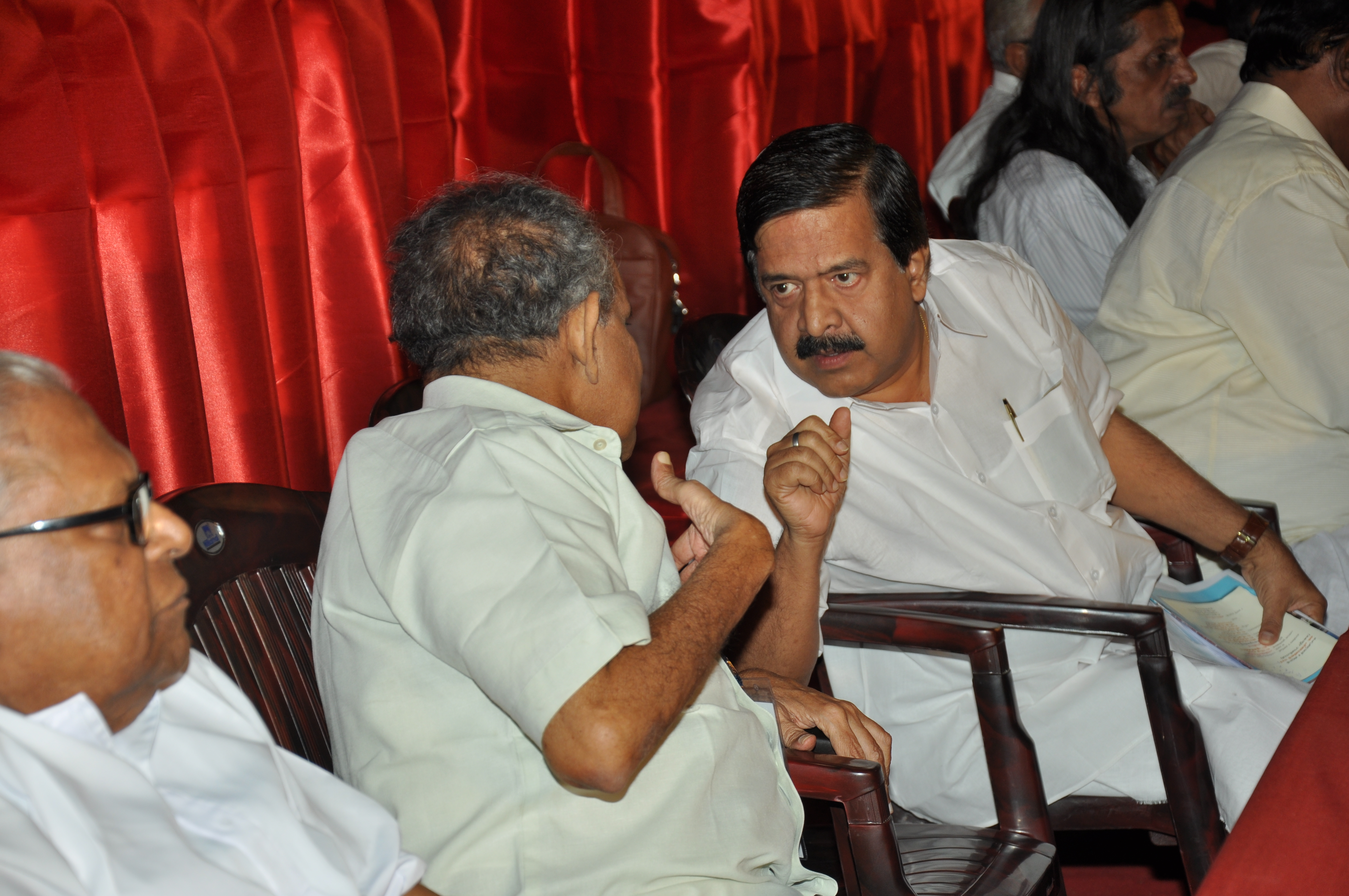 RAMESH CHENNITHALA